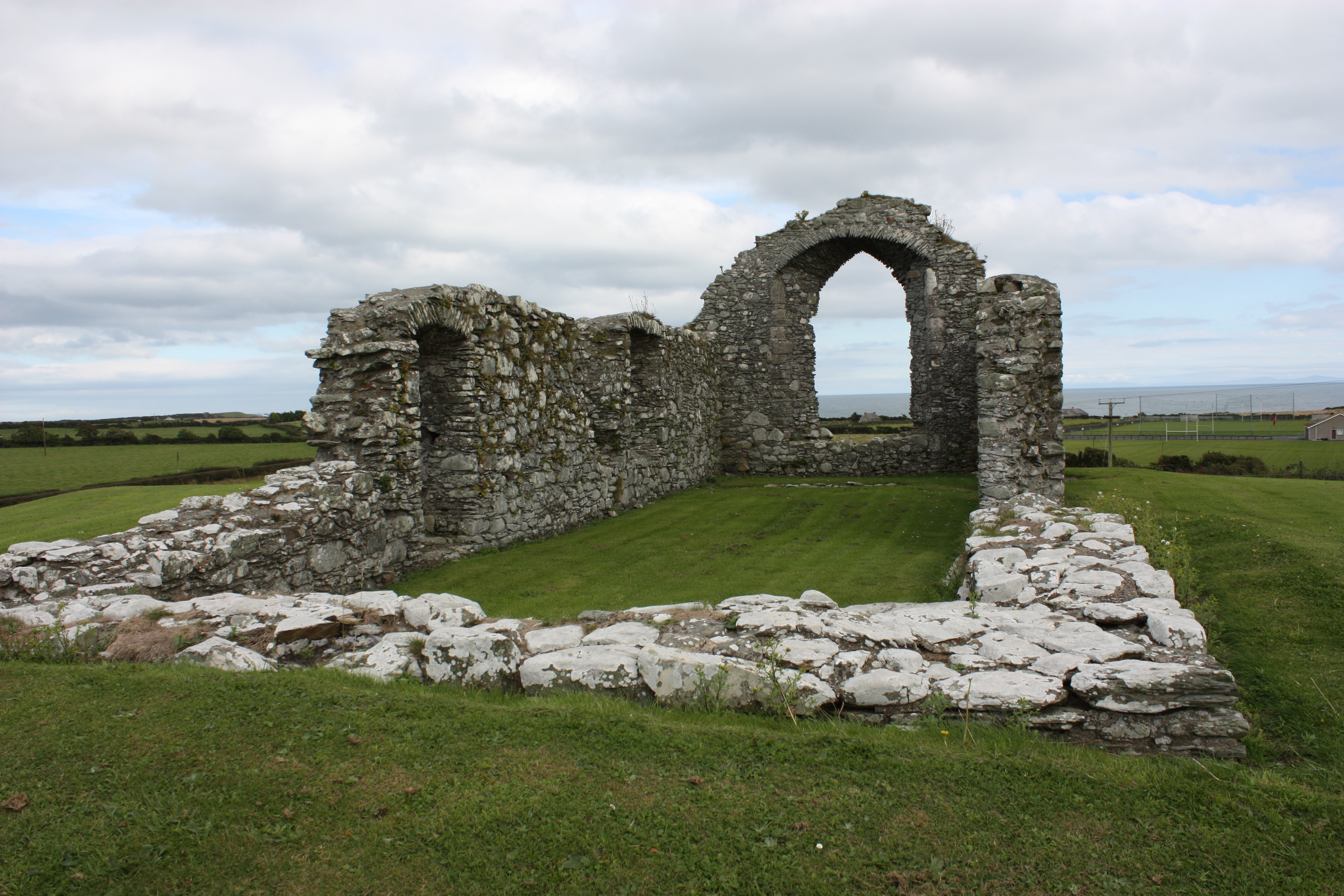 Ardtole Church, Strangford Road, Ardglass, County Down, Northern Ireland, September 2010